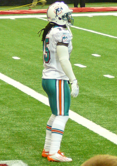 If used somewhere other than Wikipedia, Nelson, by name.